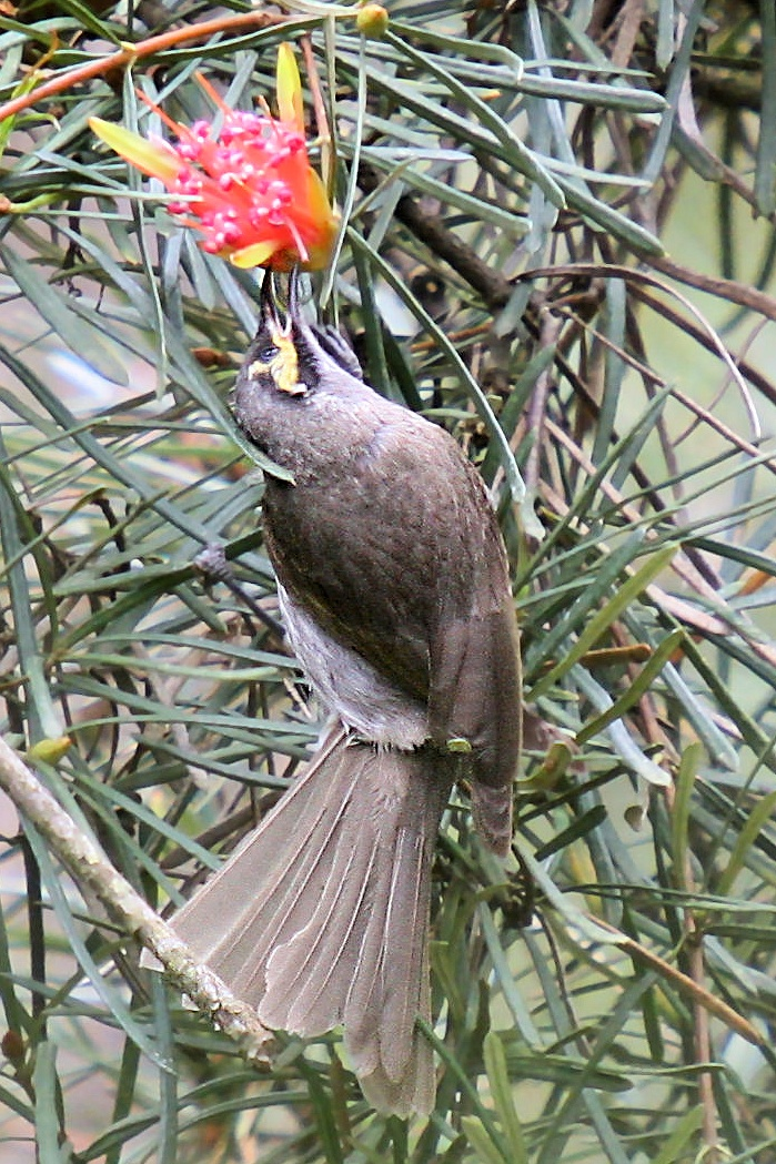 Yellow-faced Honeyeater, Lichenostomus chrysops, feeding on Lambertia formosa